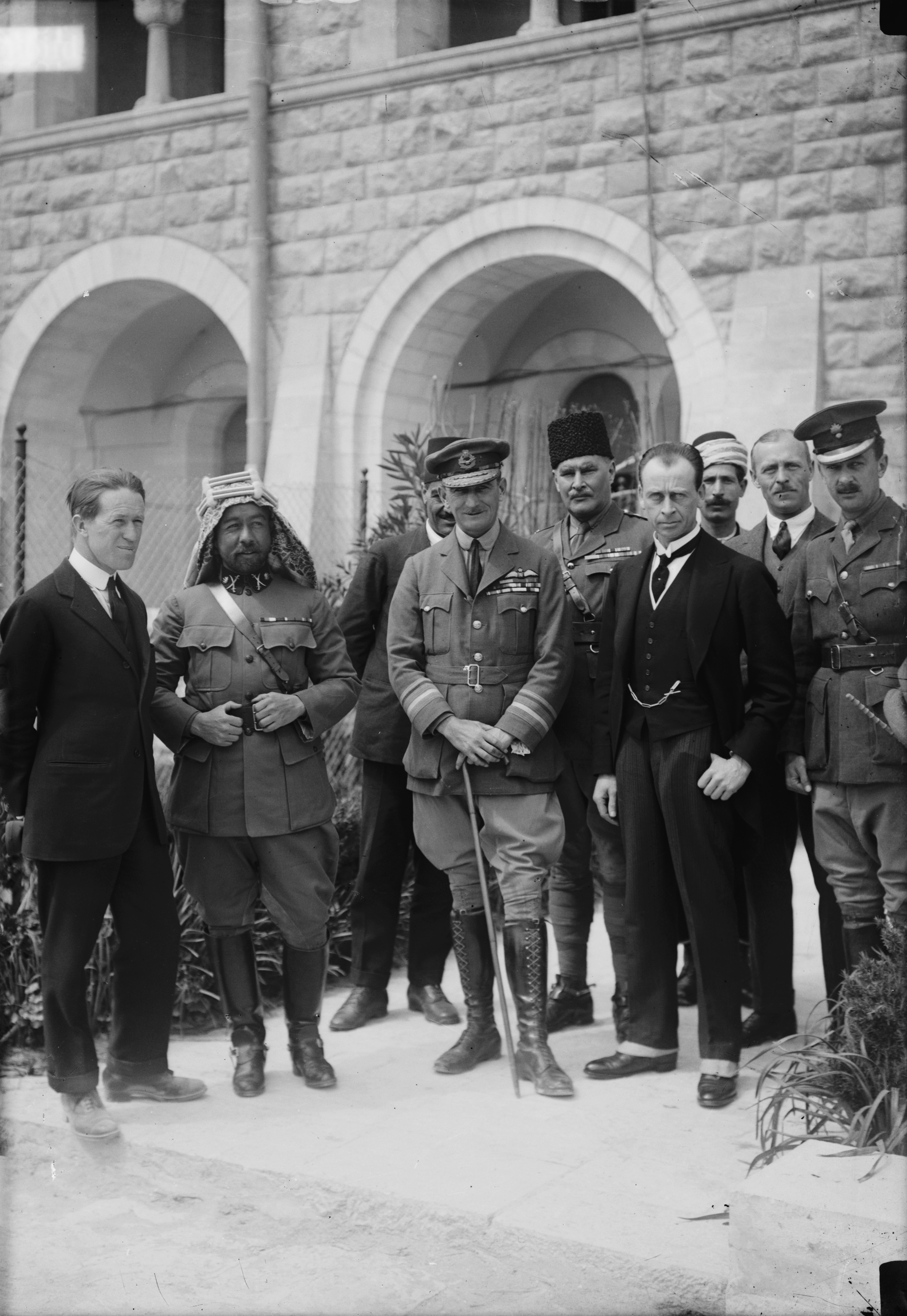 The new era in Palestine. The arrival at the 1920 Cairo Conference of Sir Herbert Samuel, H.B.M. high commissioner, etc. Col. Lawrence, Emir Abdullah, Air Marshal Sir Geoffrey Salmond and Sir Wyndham Deedes.